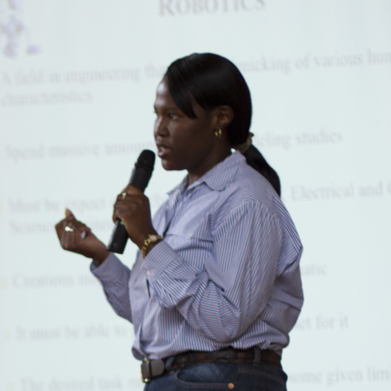 TEDxSoweto 2011 Speaker Patience Mthunzi Pictures by: Mark Straw & Trevor Chomumwe